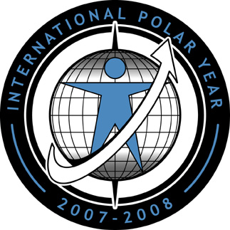 International Polar Year (2007-2008) logo